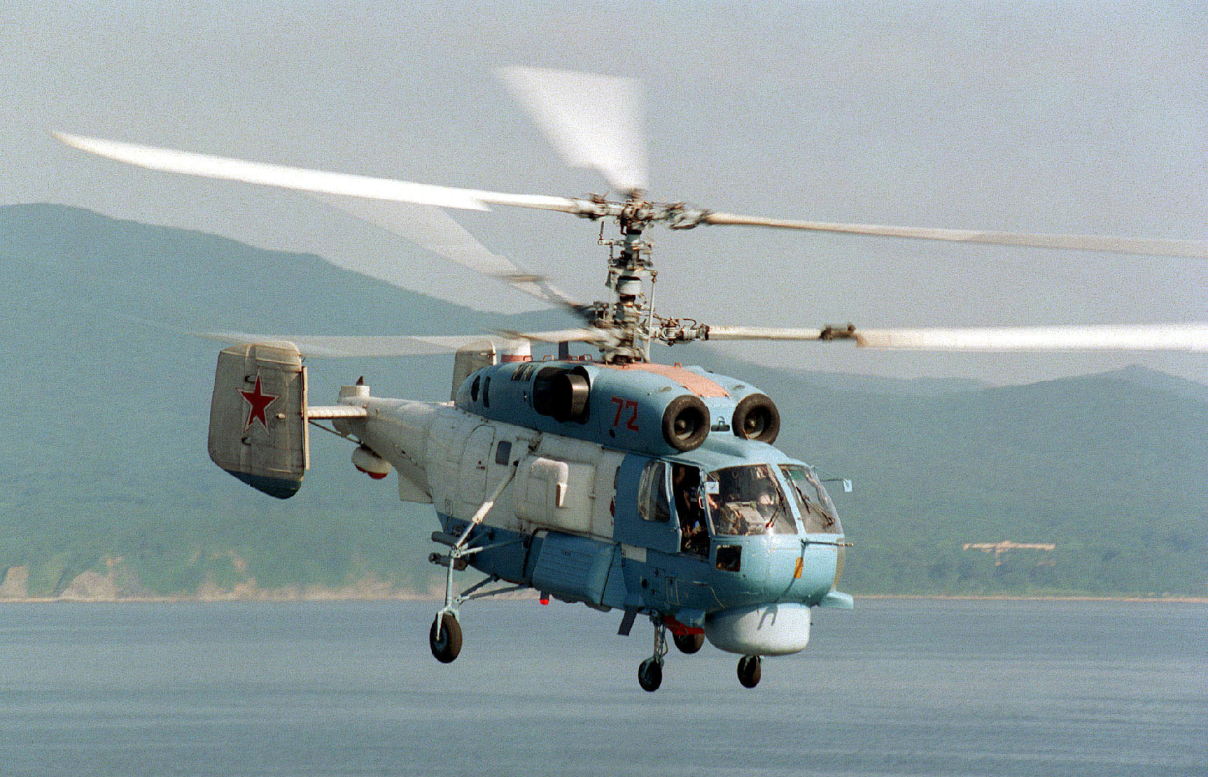 A Russian KA-27PS (Helix D) helicopter flies past the flight deck of USS BELLEAU WOOD (LHA 3) (not shown) to prepare for landing on the amphibious assault ship during Exercise COOPERATION FROM THE SEA '96, off the coast of Vladivostok, Russia. The landing marks the first time a Russian helicopter has touched down on a US Navy ship as part of this annual exercise.